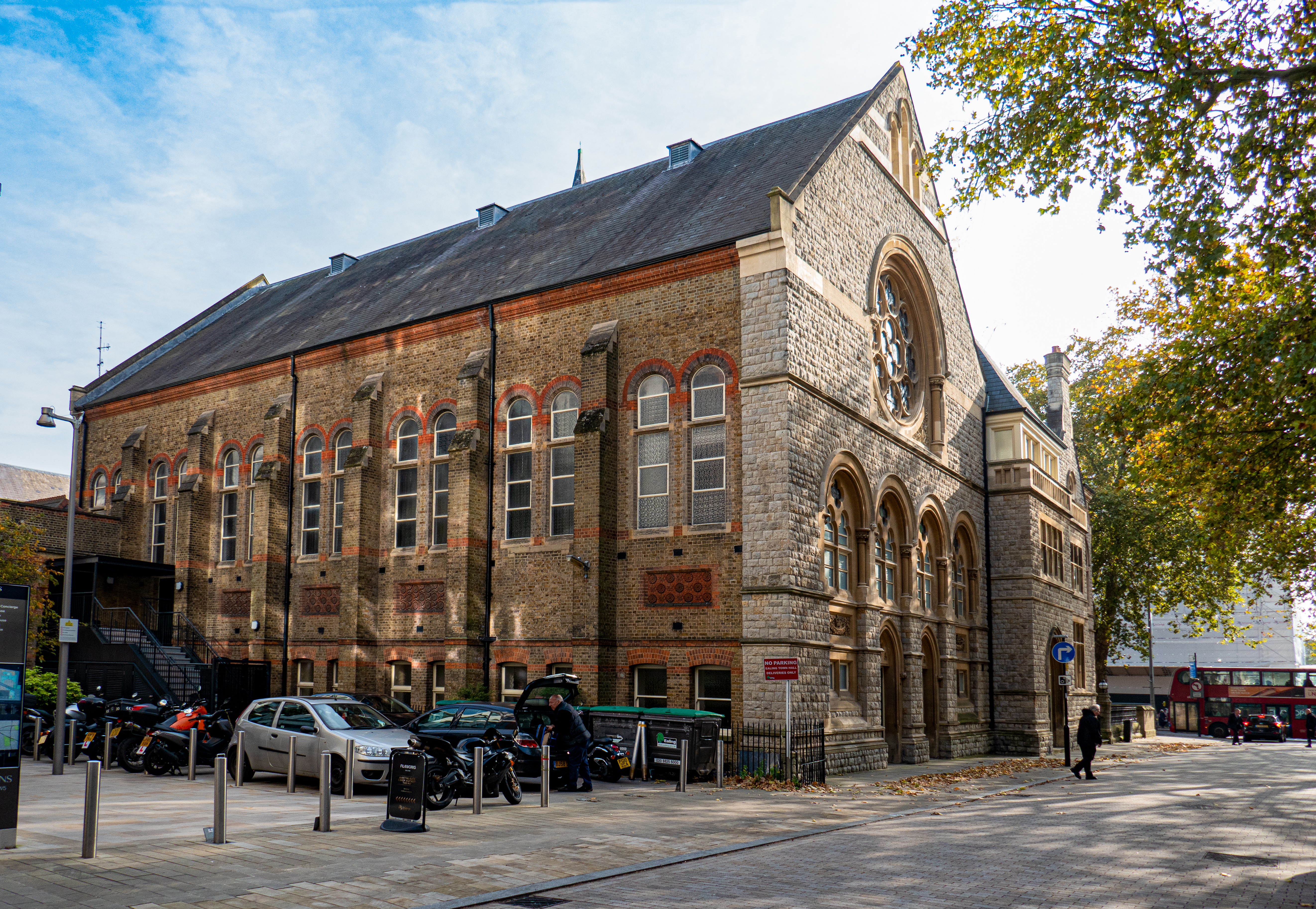 The Victoria Hall, Ealing was opened in 1988 and is a public hall belonging to the west London community of Ealing for their recreational use. It was conceived in 1886 by Charles Jones the first architect, engineer and surveyor of Ealing Council. Its construction as an extension to Ealing Town Hall was funded by public donations and its operations governed by the Victoria Hall Trust, established in 1893. In 2015 the Council announced plans to sell off the Grade II listed building to a development partner on a long lease. The plan led to protests by local residents’ groups who called for the Hall to continue to be available for use as a public asset.